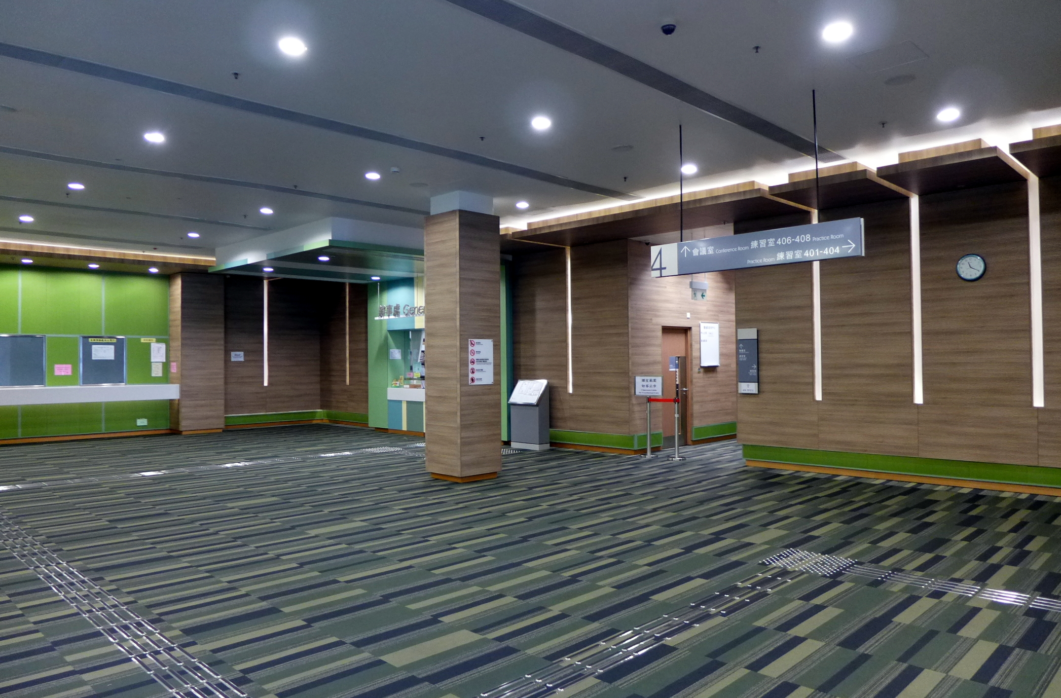 Lam Tin Complex Kwun Tong Music Centre Lobby